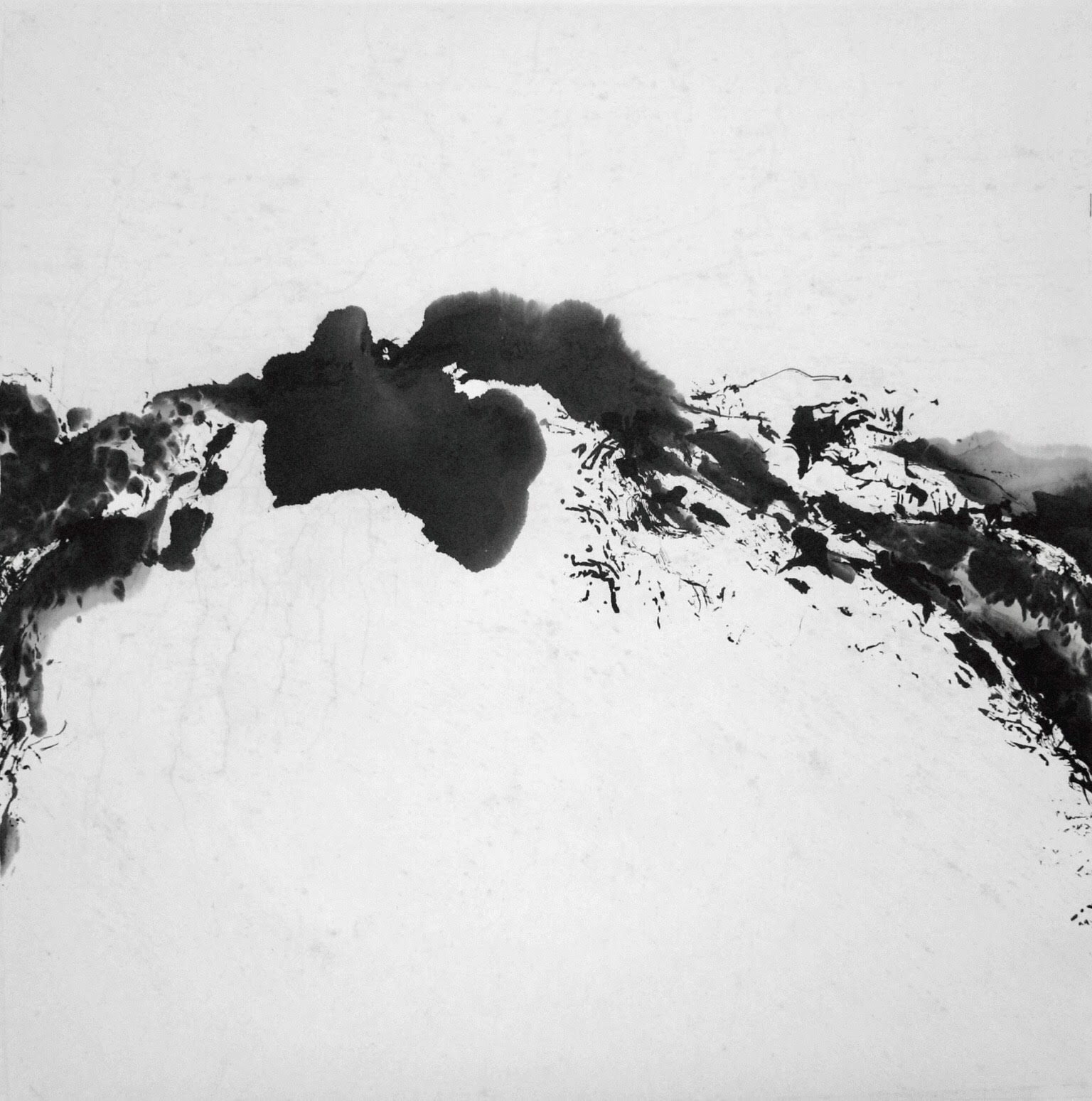 Encre de Chine